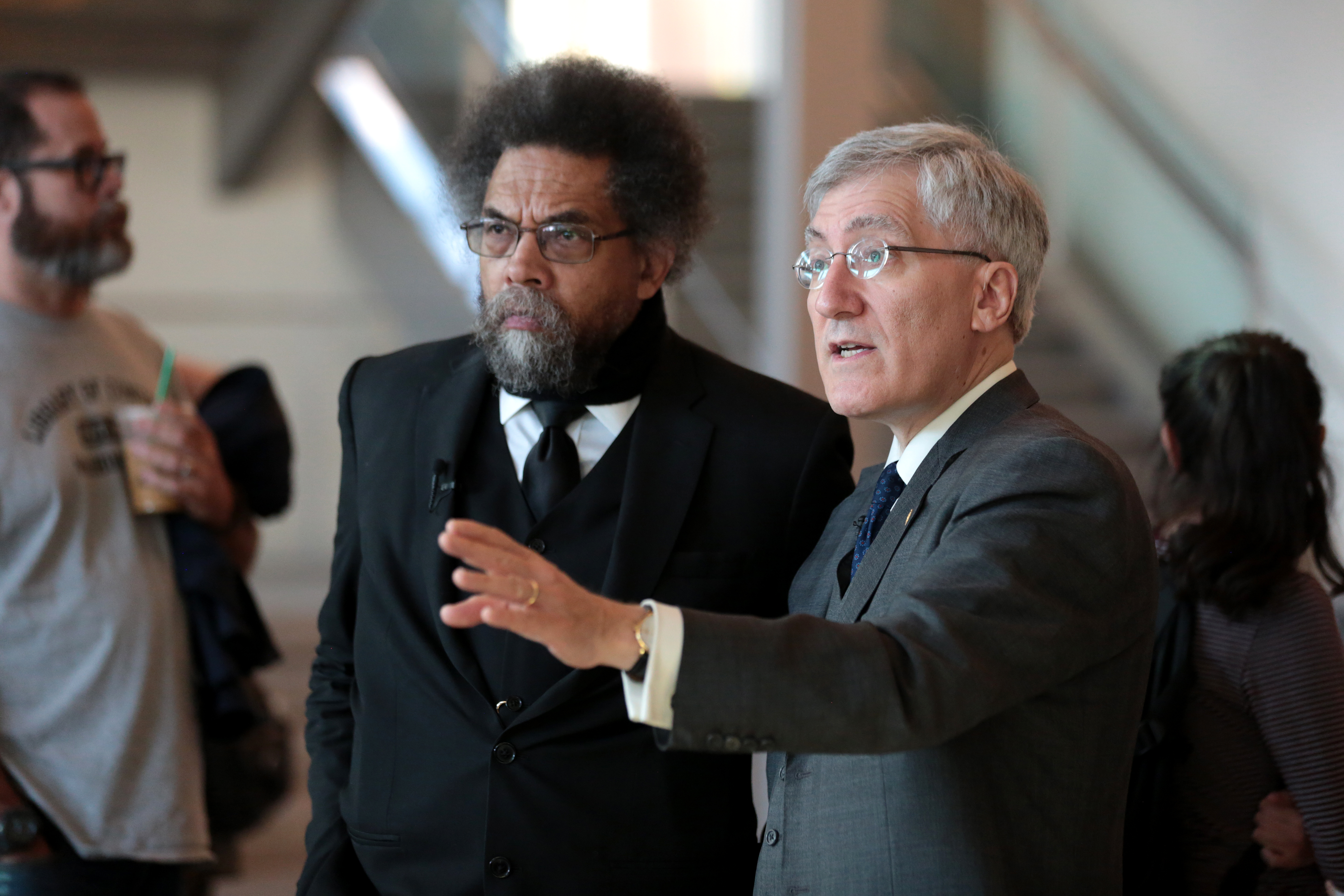 Cornel West and Robert P. George at an event at the Student Pavilion at Arizona State University in Tempe, Arizona.